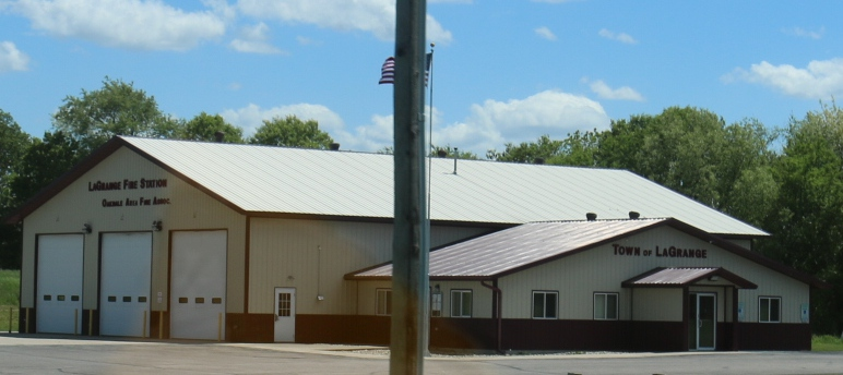 The town hall and fire station for the town of La Grange, Wisconsin (Monroe County).